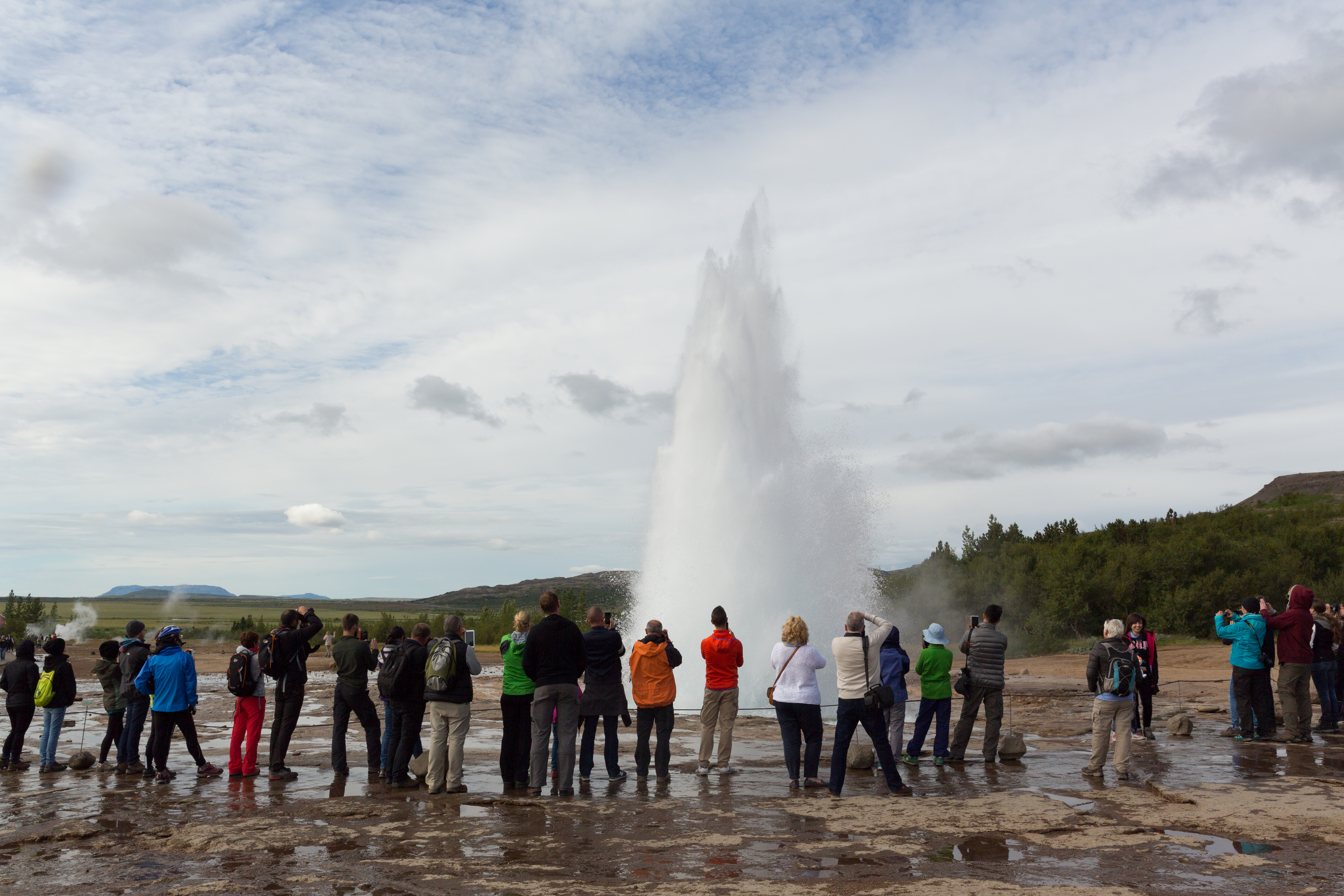 Tourists observing Strokkur